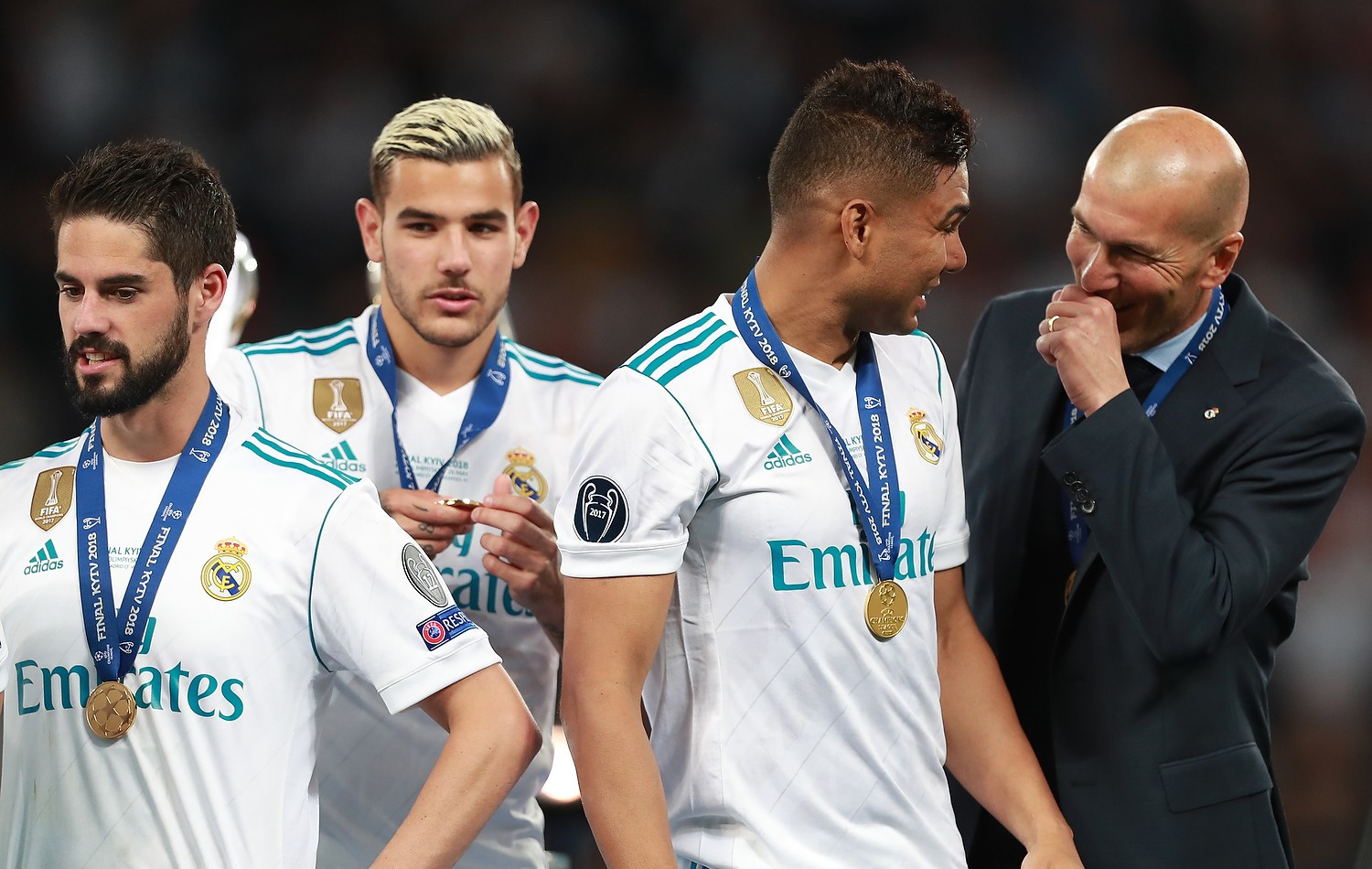 Isco, Casemiro, Theo Hernández ,Zinedine Zidane